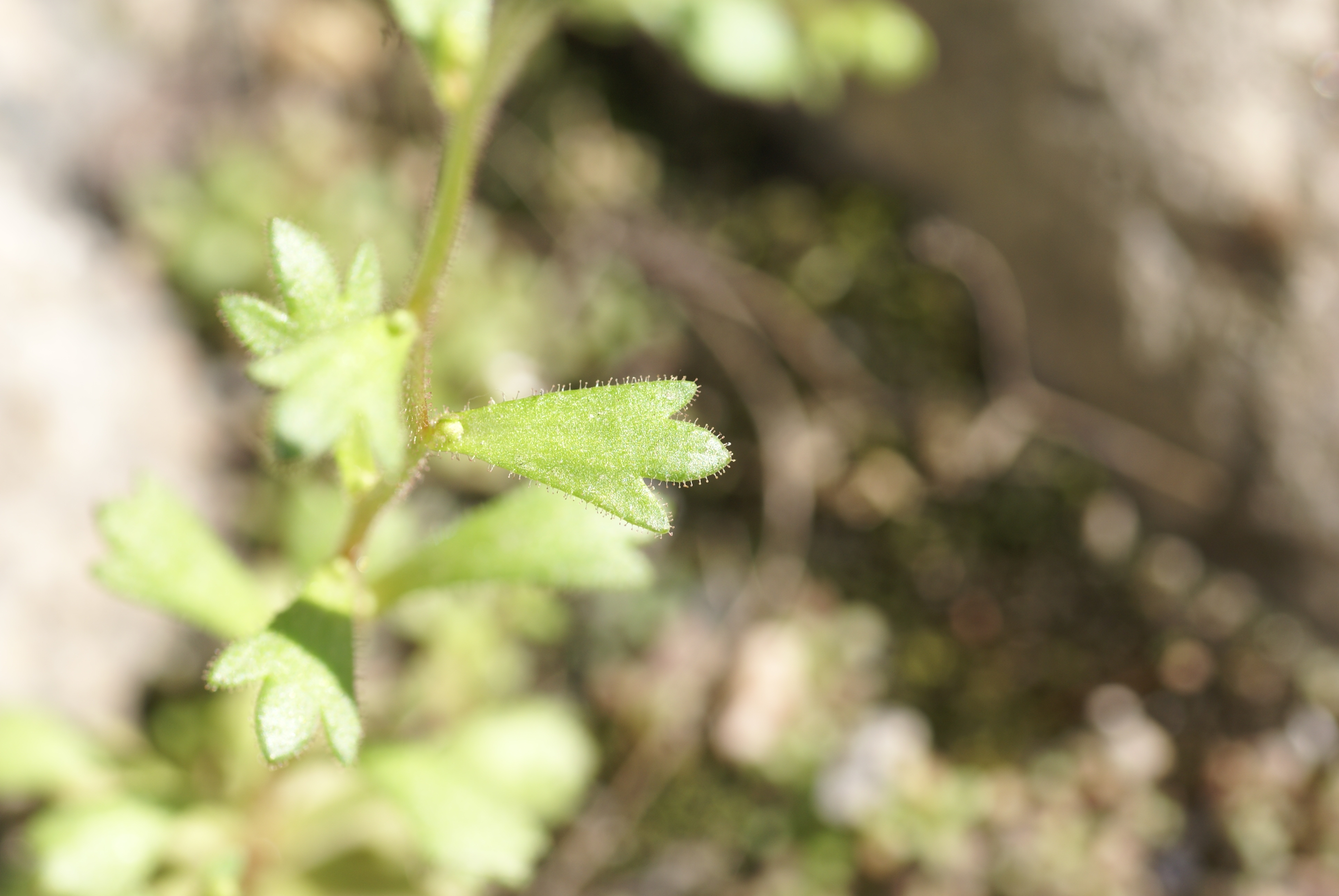 Plant species Saxifraga osloënsis, Stockholm